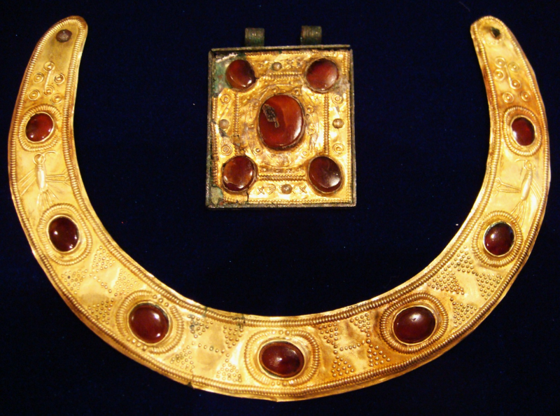 Sarmatian-Parthian (Persian) Tribal King’s Ritual Gold Pectoral Necklace and Amulet 1 Century BC – 2 Century AD